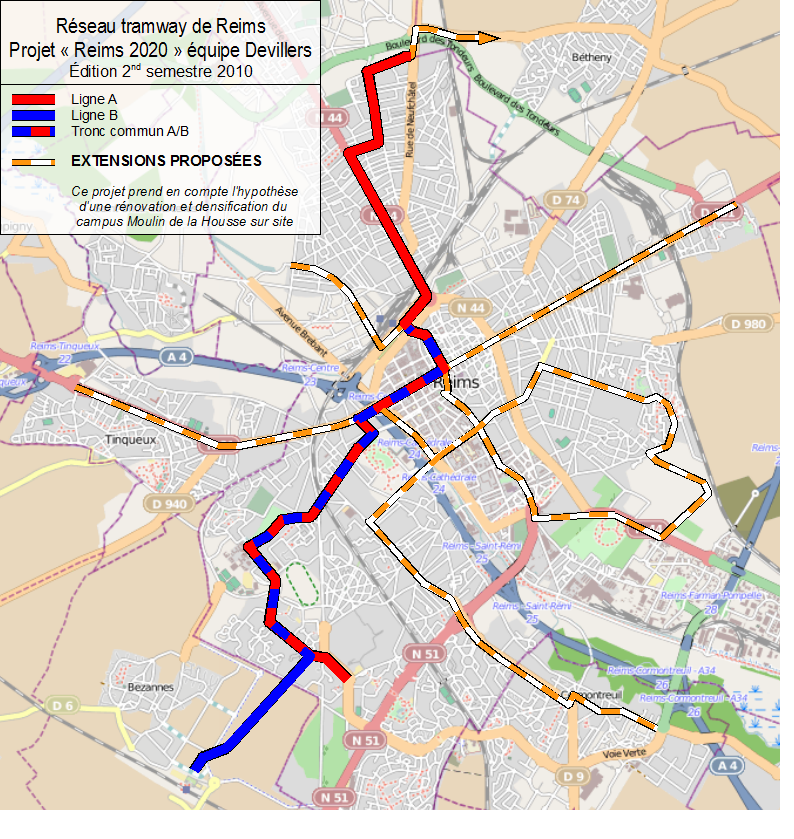 Project to extend the tram network according to the team Reims Christian Devillers, through dialogue "Reims 2020"